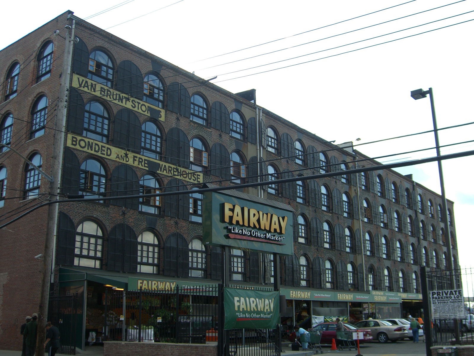 The Fairway supermarket in Red Hook, Brooklyn.